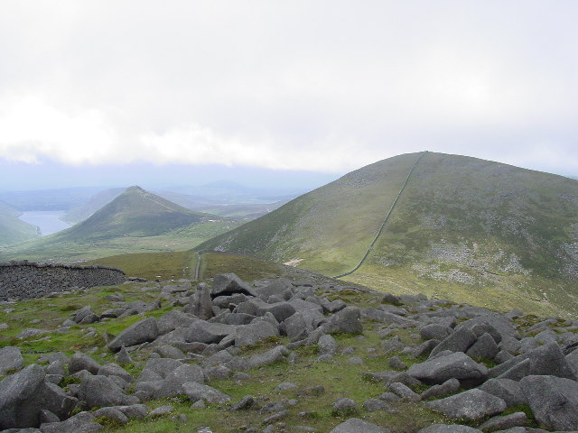 On Slieve Meelmore with view to Slieve Meelbeg. Looking SW along Mourne Wall towards Slieve Meelbeg. The pointed peak in the distance is Doan.